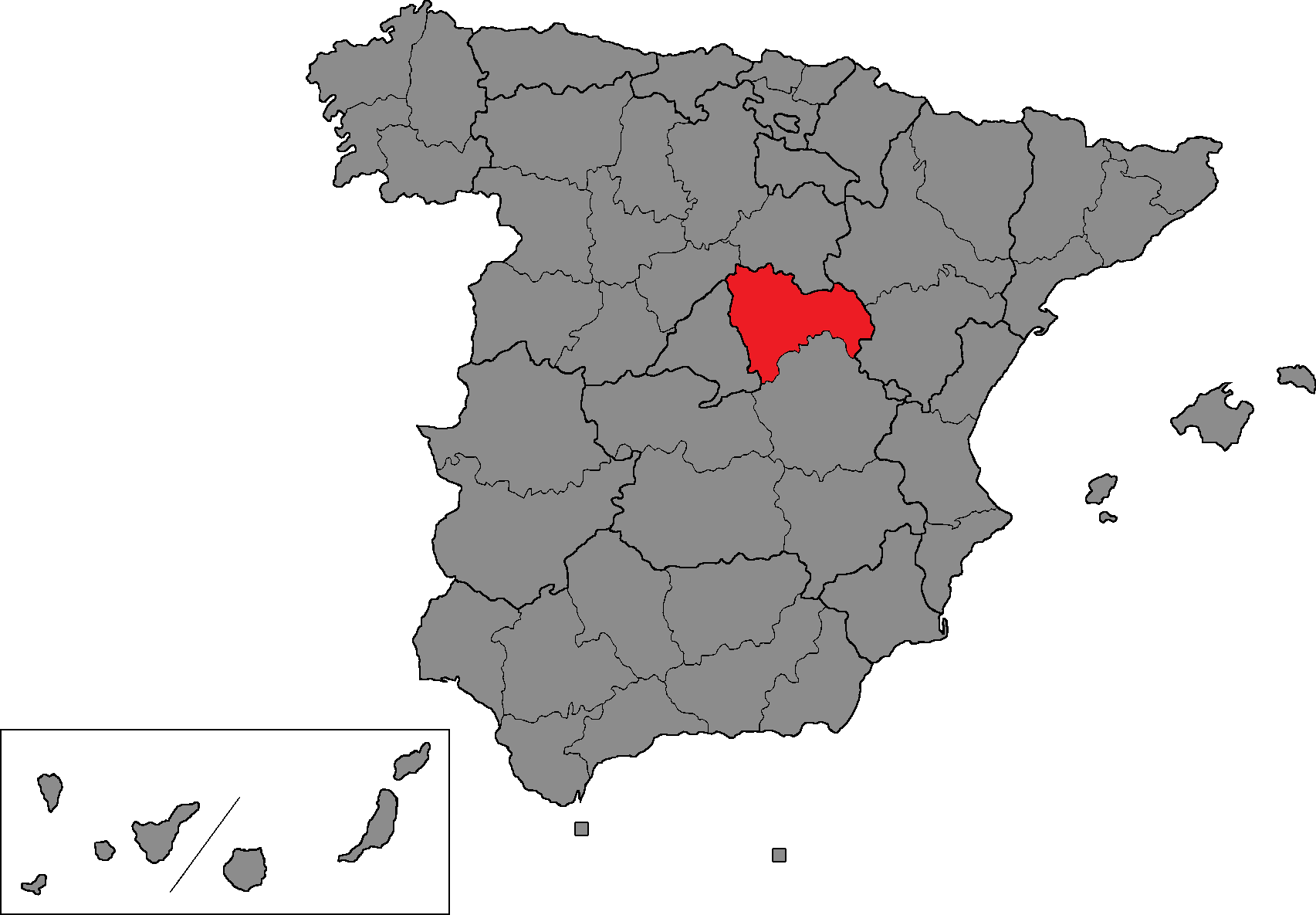 Spanish Congress of Deputies district of Guadalajara.